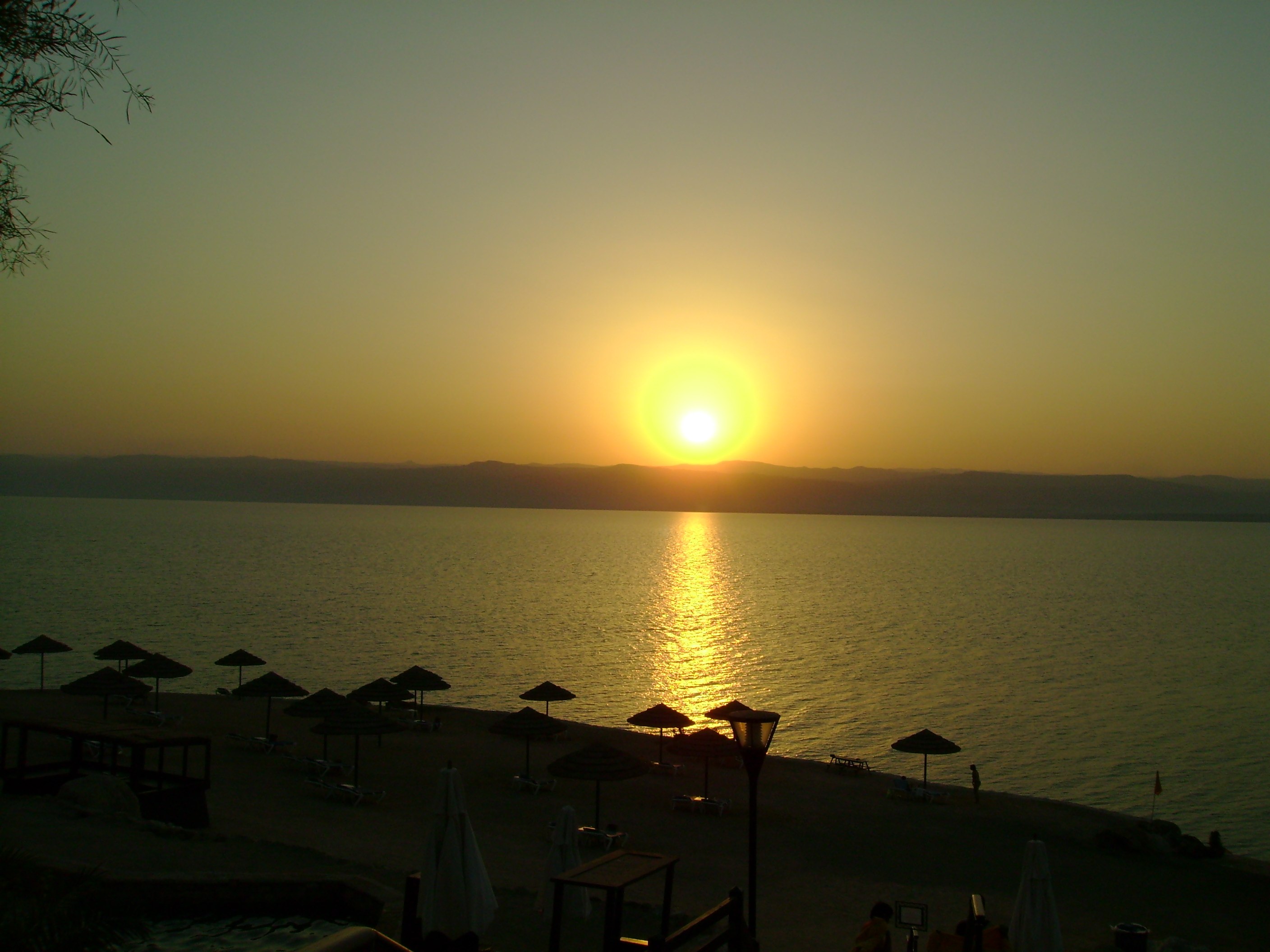 When I visited Dead Sea in Jordan on 12th September 2007, I took it from Jordan side Dead sea bank.